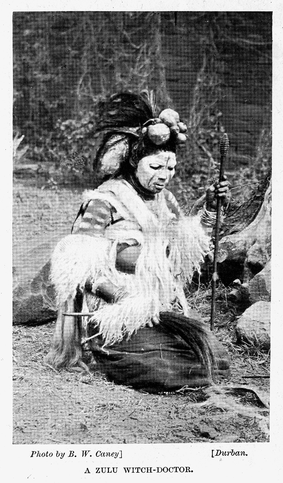 African Zulu witch doctor Wellcome Images Keywords: practitioner and equipment